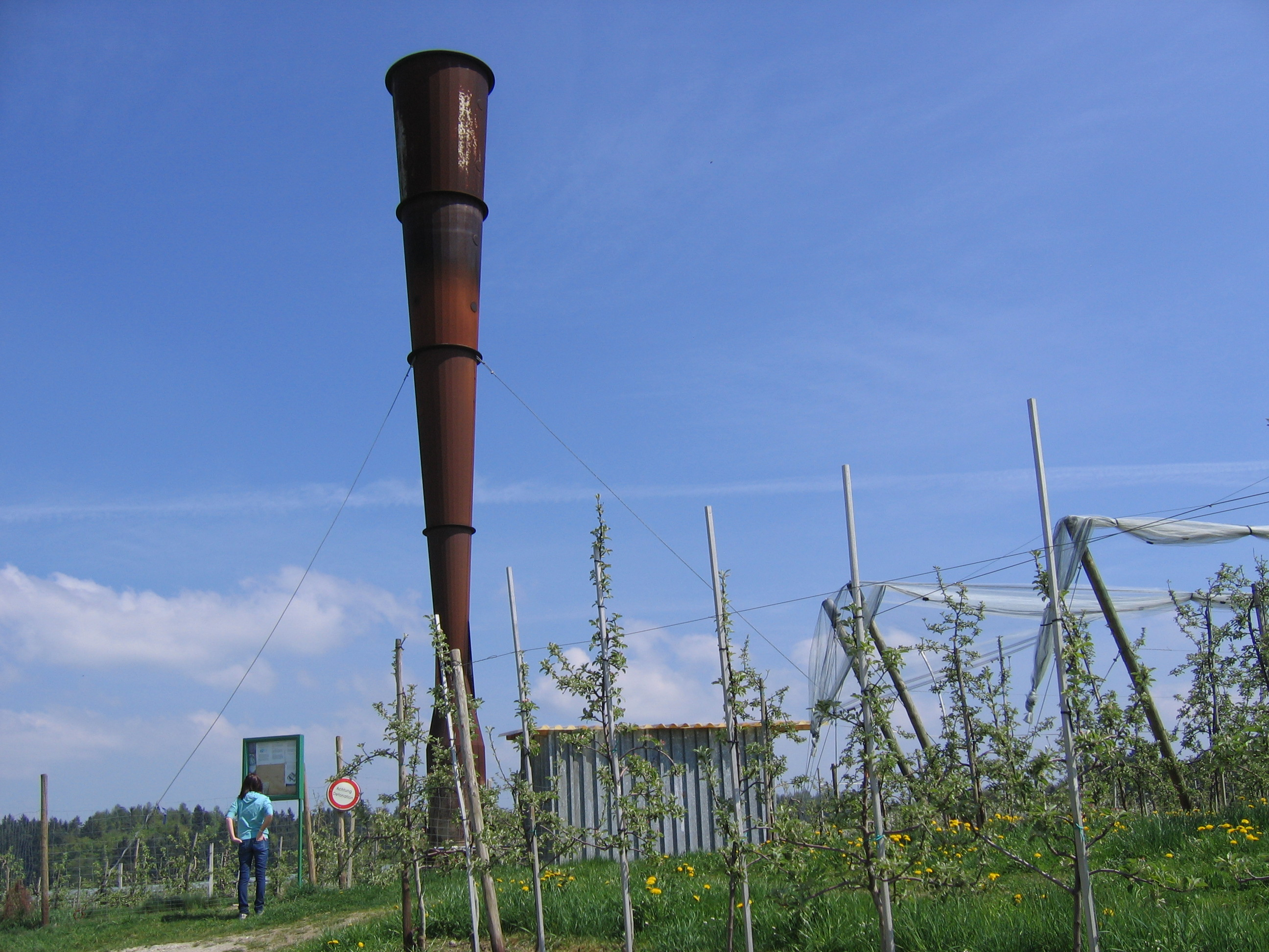 Germany - Baden-Württemberg - Bodenseekreis - Kressbronn am Bodensee: hail cannon